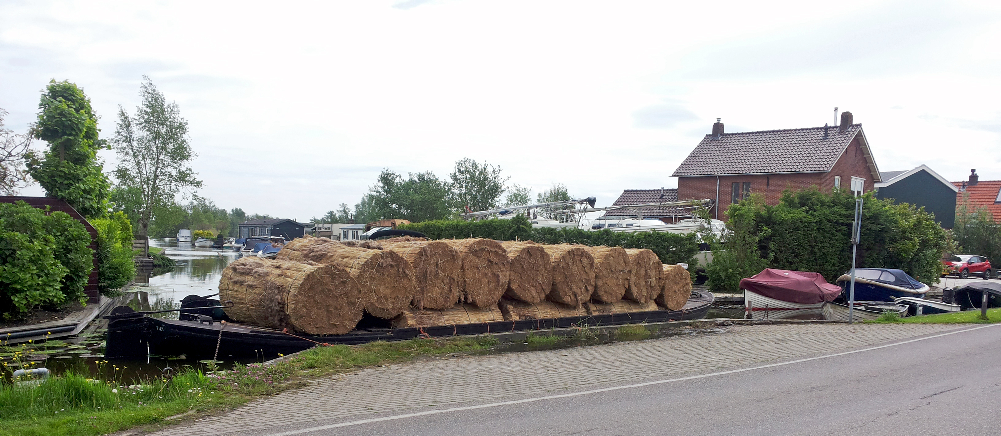 Prahm anf straw bales